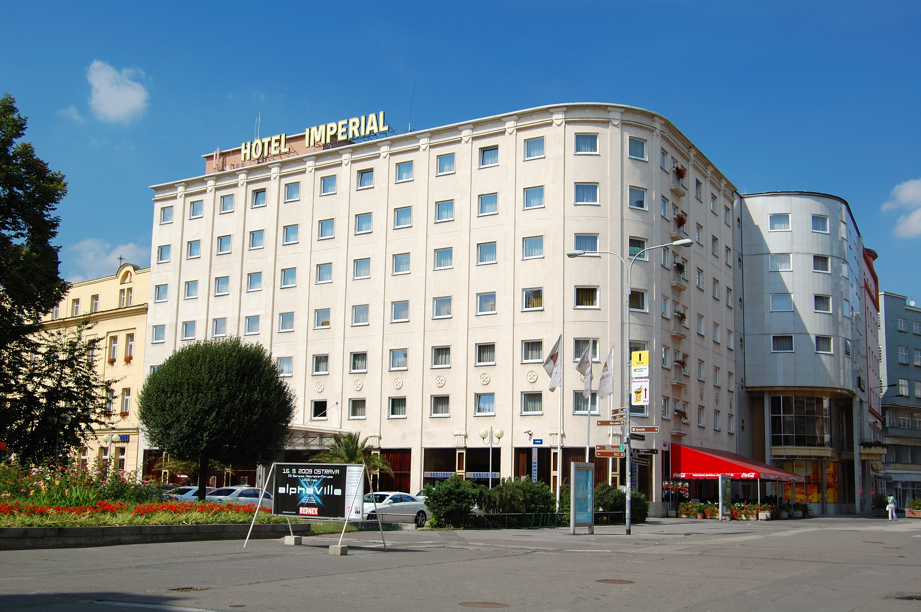 Hotel Imperial in Ostrava, Czech Republic.